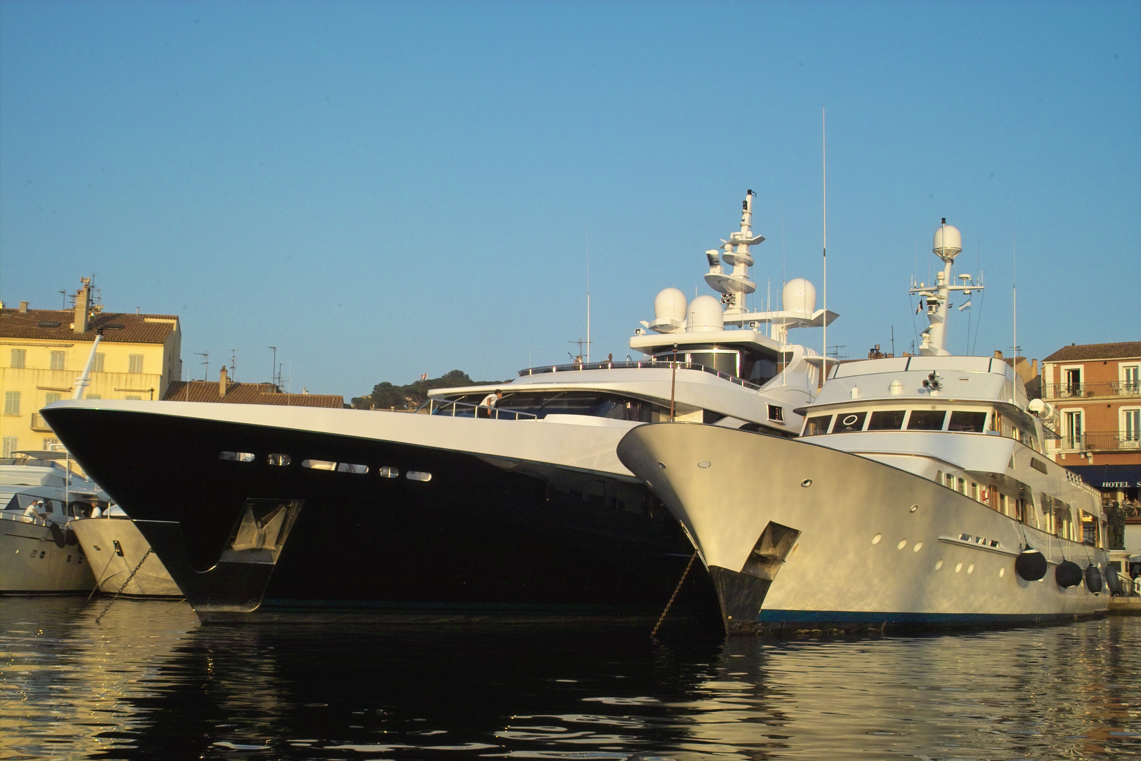 Luxury yachts in Saint-Tropez, France.